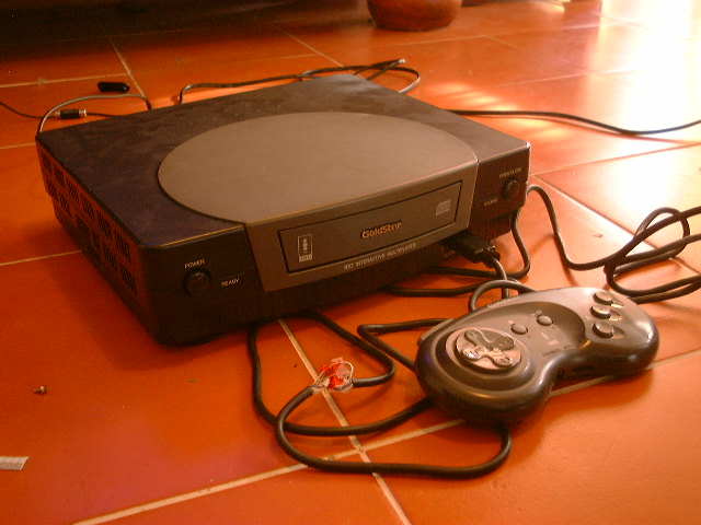 GoldStar 3DO ALIVE.GoldStar Unit